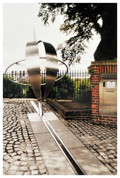 prime meridian at Greenwich, London, UK